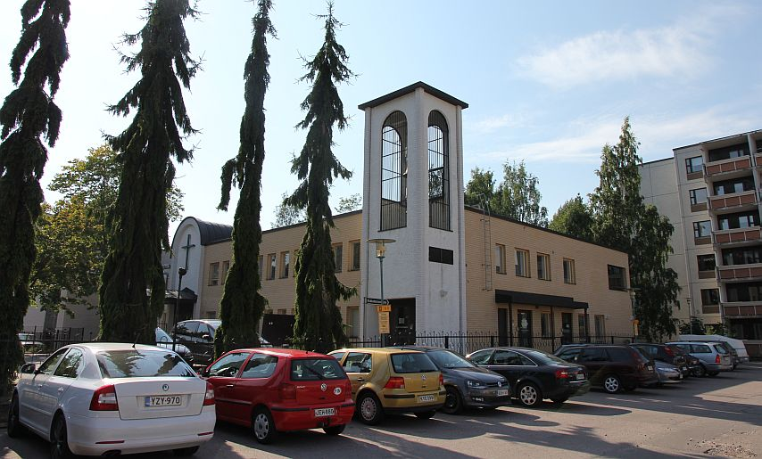 Hakunila Church in Vantaa, Finland, was designed by architect Pauli Halonen, and completed in 1976.